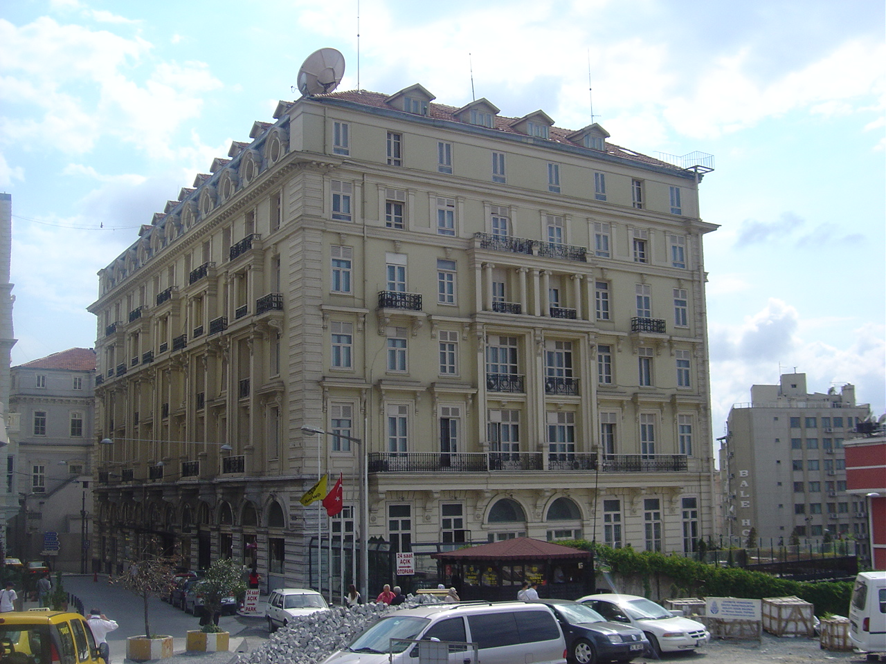 Pera Palas Hotel